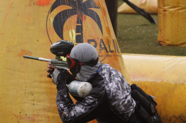 A_iranian_paintball_player